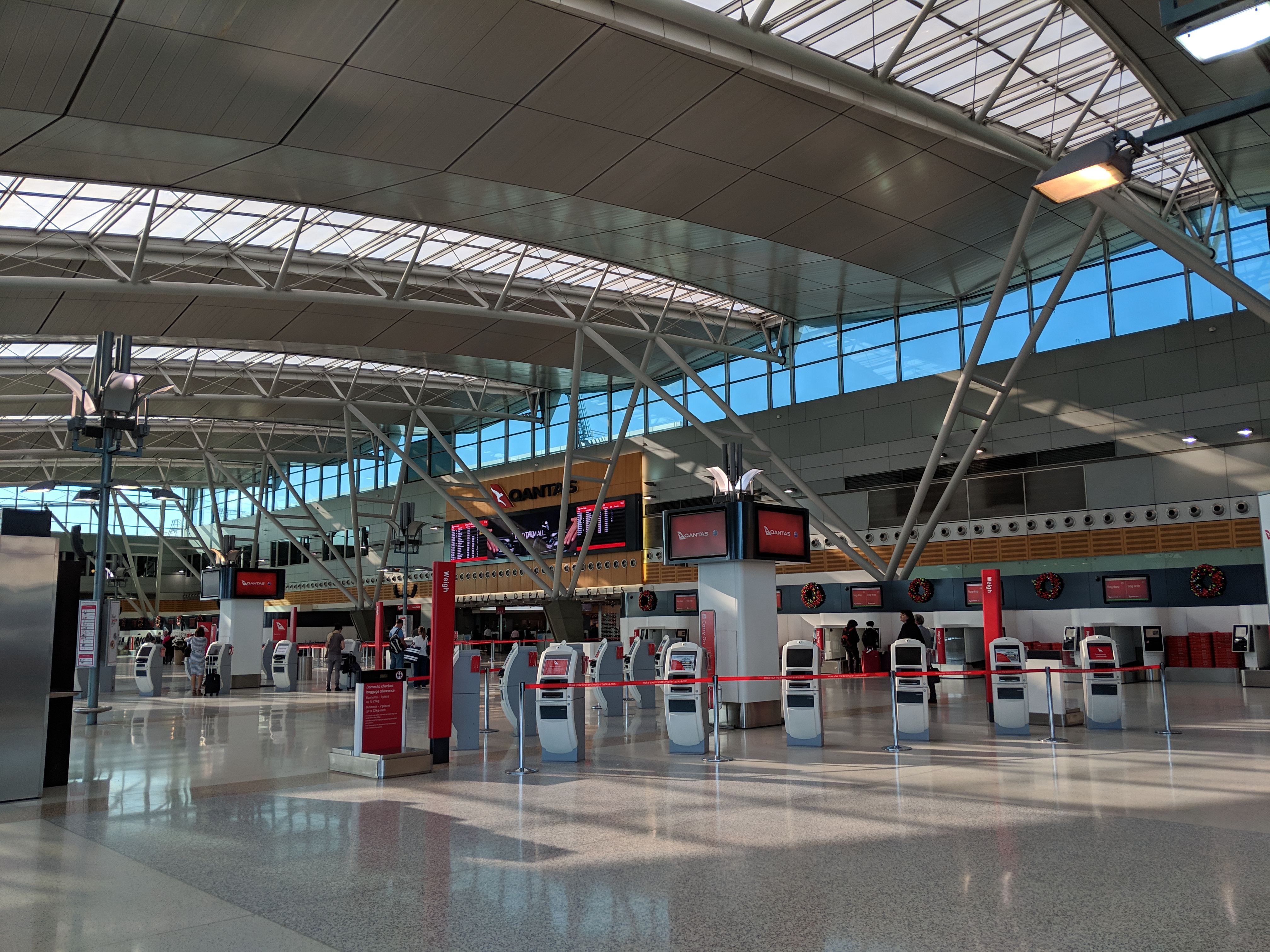 Sydney Airport Terminal 3